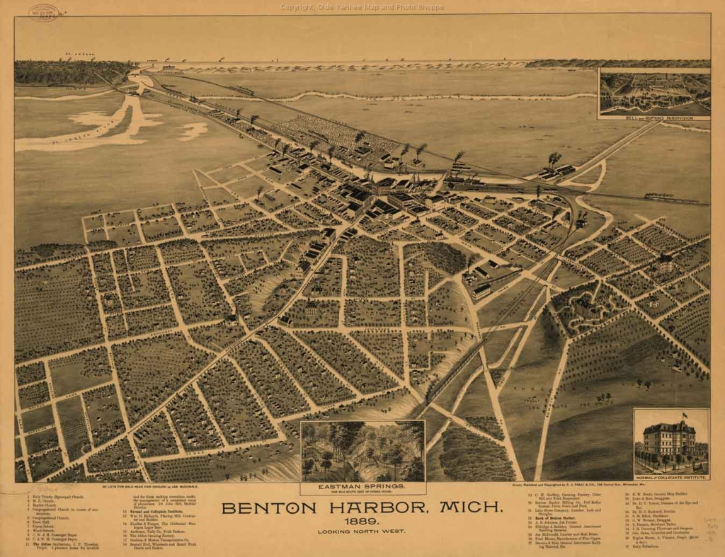 Overview of Benton Harbor, Michigan